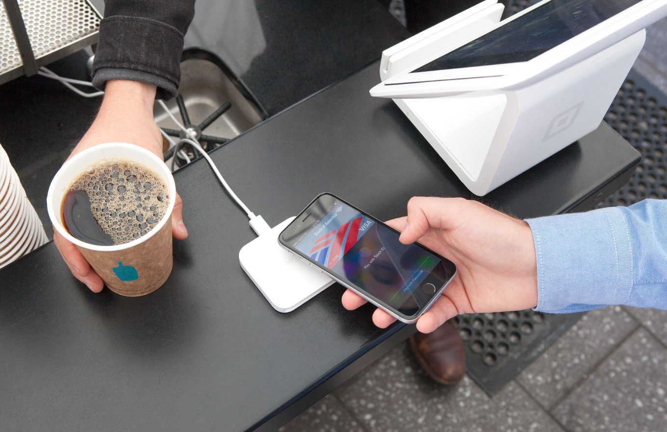 Paying for coffee with Square's apple pay reader Detailed photo description: A gentleman paying for coffee with an iPhone 6 with Square's apple pay and EMV reader. Location: Blue Bottle Coffee Company in San Francisco, CA